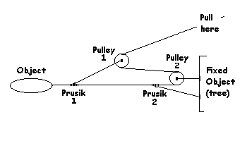 Diagram of a typical Z-Drag configuration for a rope and pulley rescue.